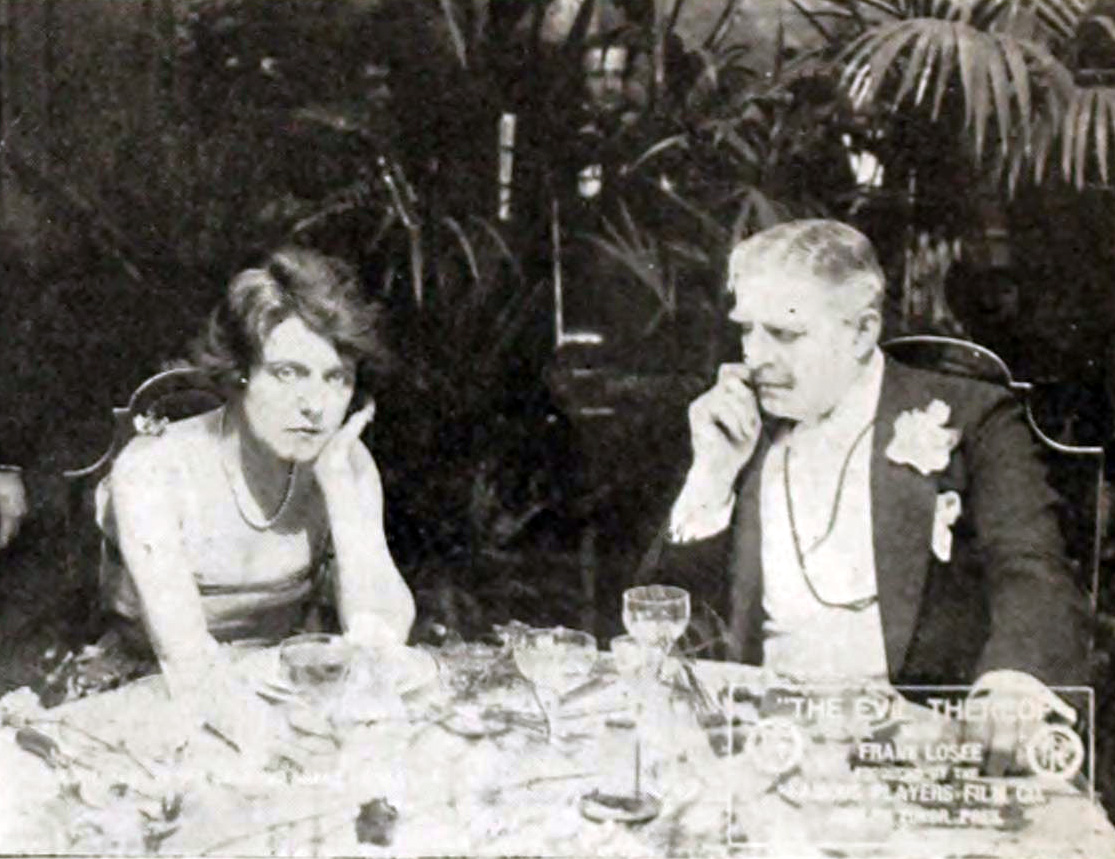 Illustration of a review in The Moving Picture World for the American film The Evil Thereof (1916).